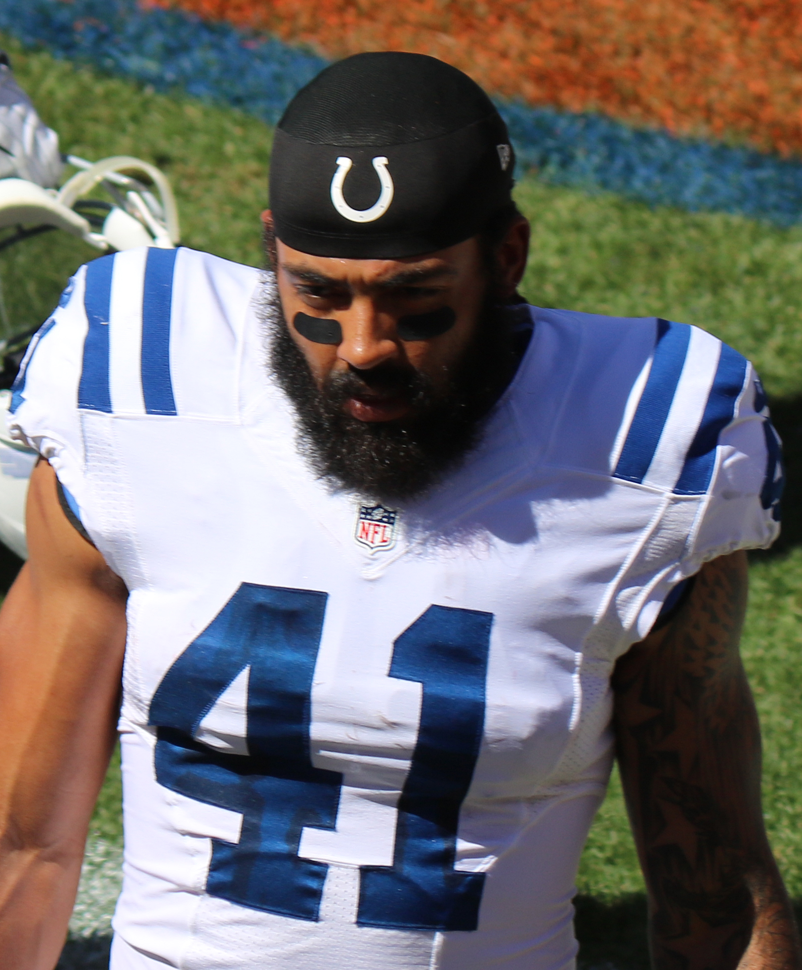 Matthias Farley, a player on the National Football League.